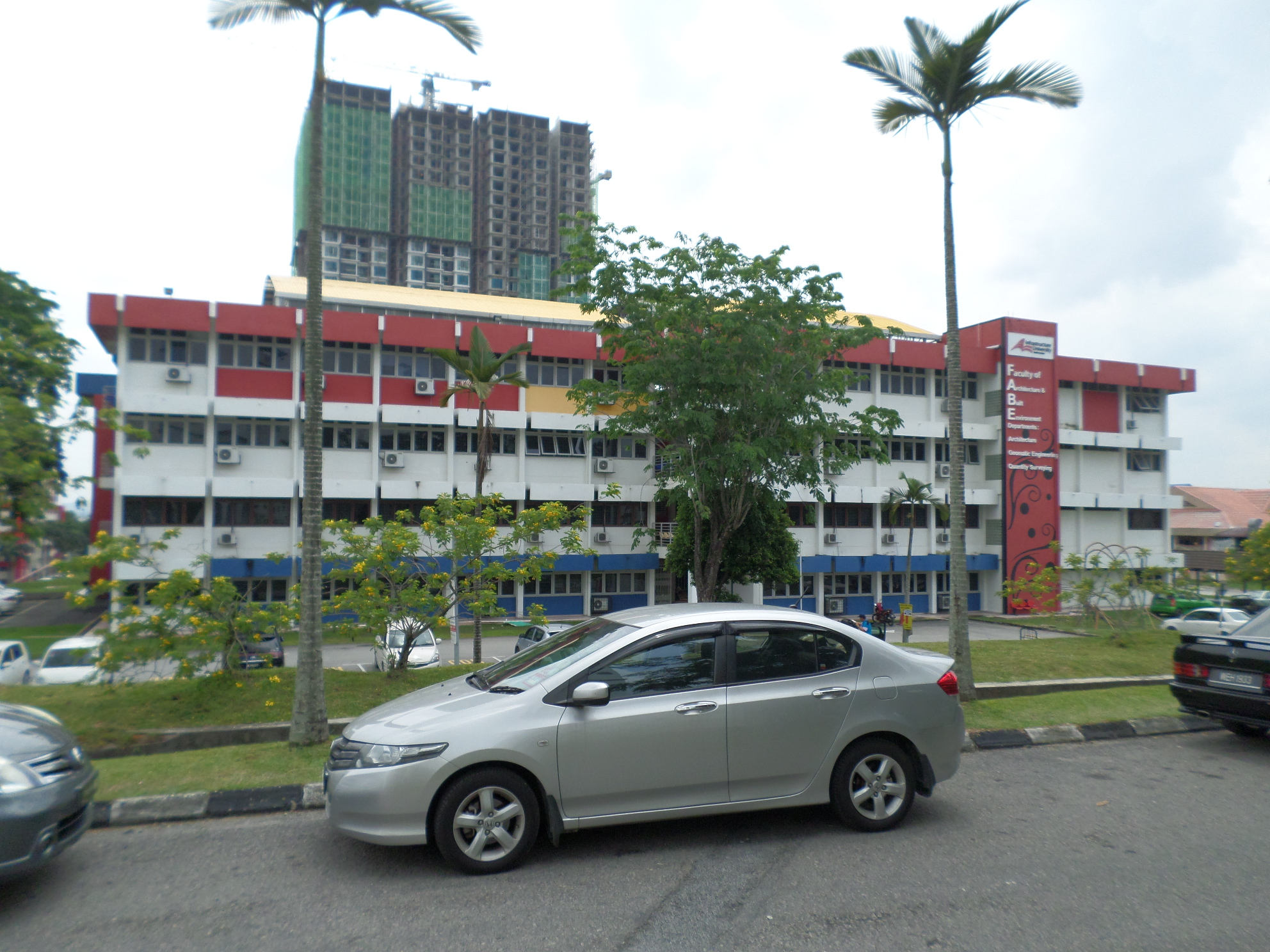 Infrastructure University Kuala Lumpur, Kajang, Hulu Langat, Selangor, Malaysia